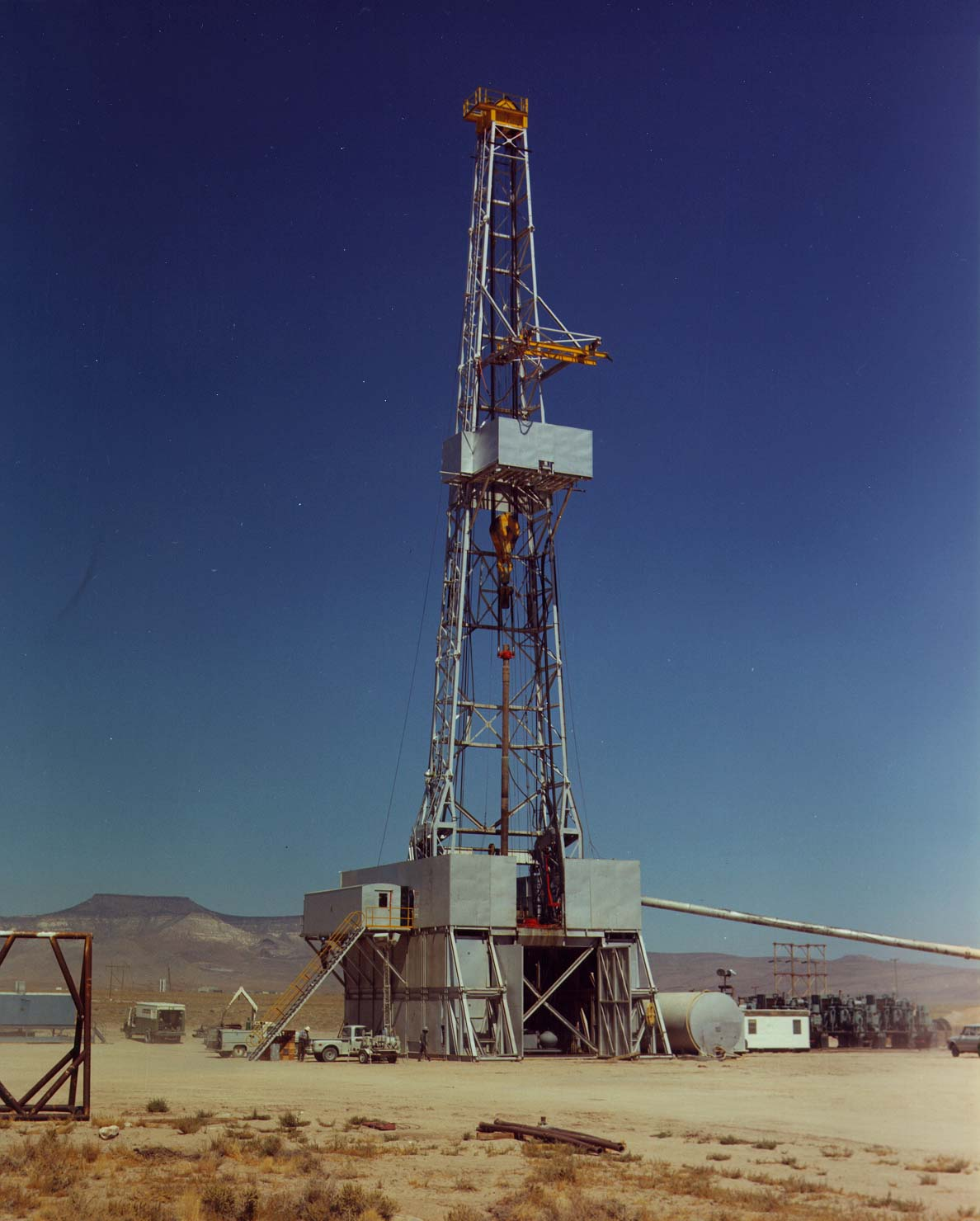 The IDECO 2500, used at the Nevada Test Site, is a 2000 horsepower diesel electric rig capable of drilling holes 72 to 140 inches in diameter to depths of 4,000 feet. The rated capacity of its 158 foot pyramid mast is 1,400,000 pounds.